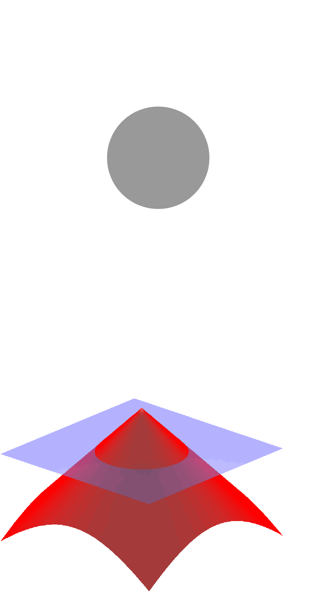 Made by myself with Matlab.